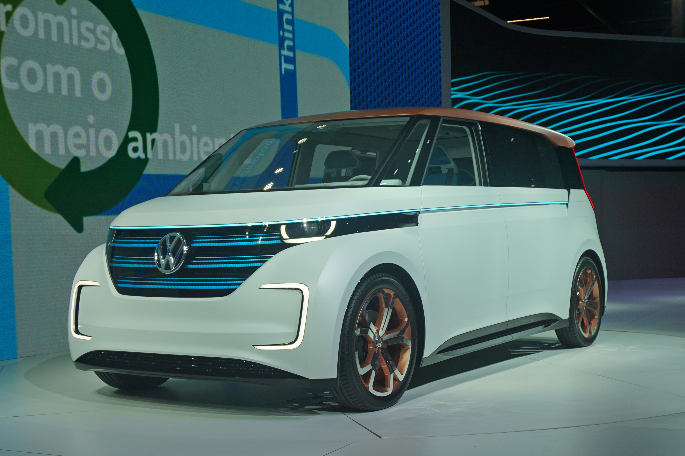 Volkswagen BUDD-e concept at the Salão Internacional do Automóvel 2016 São Paulo, Brazil